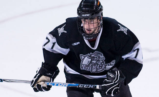 Picture of Louis Leblanc playing for the Omaha Lancers in the USHL